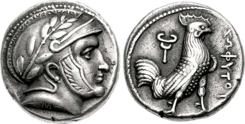 Sophytes hemidrachm